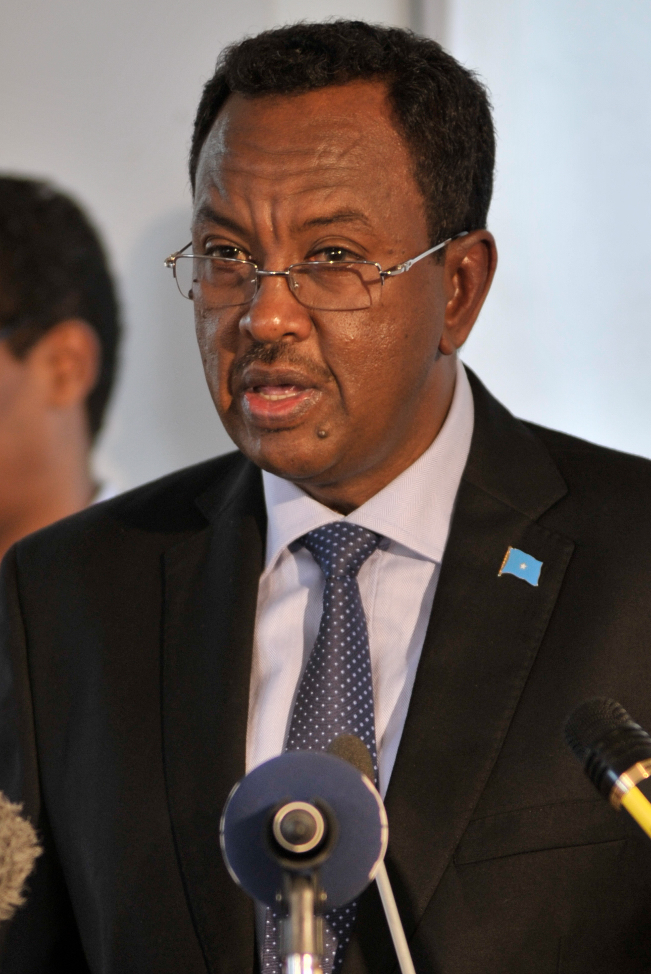 Somalia's Prime MInister, Abdi Farah Shirdon Saaid, addresses the audience at the New Deal conference in Mogadishu, Somalia, on May 14. Members of the International Dialogue on Peacebuilding and Statebuilding, consisting of the g7+ group of 19 fragile and conflict-affected countries, development partners, and international organisations, gathered today in Mogadishu, Somalia, for the New Deal conference. The New Deal for Engagement in Fragile States (the "New Deal") is a set of principles outlined by the group, which primarily focus on peacebuilding and statebuilding initiatives in post-conflict-ridden countries. AU UN IST PHOTO / TOBIN JONES.